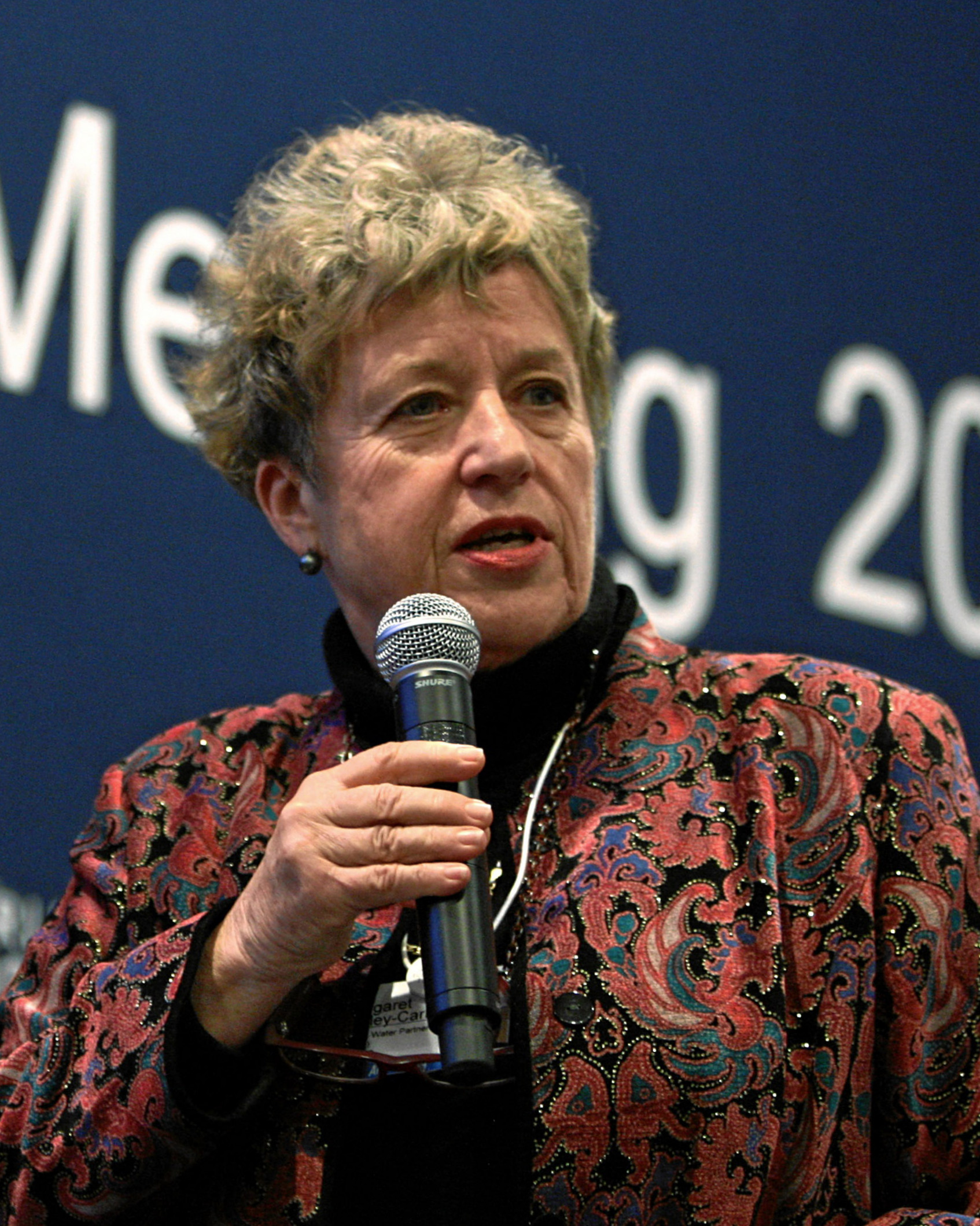 DAVOS/SWITZERLAND, 30JAN10 - Margaret Catley-Carlson, Patron, Global Water Partnership (GWP), Sweden; Global Agenda Council on Water Security, speaks during the session 'Rebuilding Water Management' in the Congress Centre of the Annual Meeting 2010 of the World Economic Forum in Davos, Switzerland, January 30, 2010.. . Copyright by World Economic Forum. by Remy Steinegger. . .